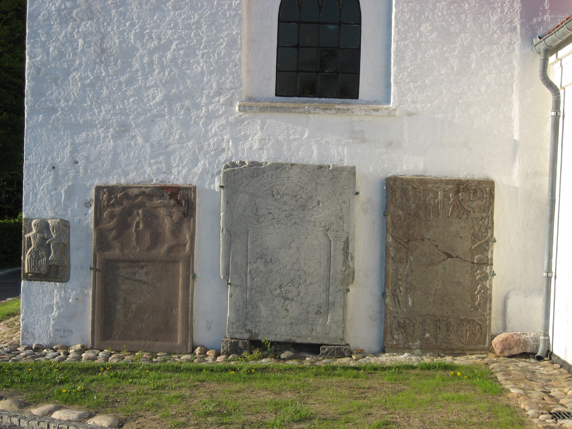 Hasle Kirke in Hasle, Århus, Denmark. Old gravestones on the south wall of the tower and a romanesque relief stone on the left.